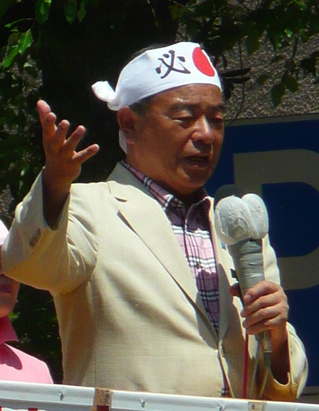 Nariaki Nakayama (August 25, 2009)